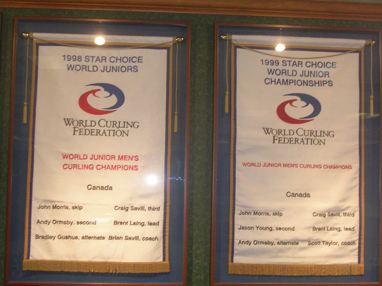 World juniors banners